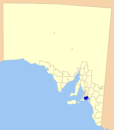 Map of South Australia showling the location of the Alexandrina Local Government Area. A modification of GDFL map by Astrokey44; found here: File:SA_LGA_blank.png